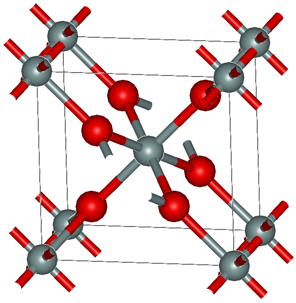 stishovite (SiO2), red atoms are oxygens